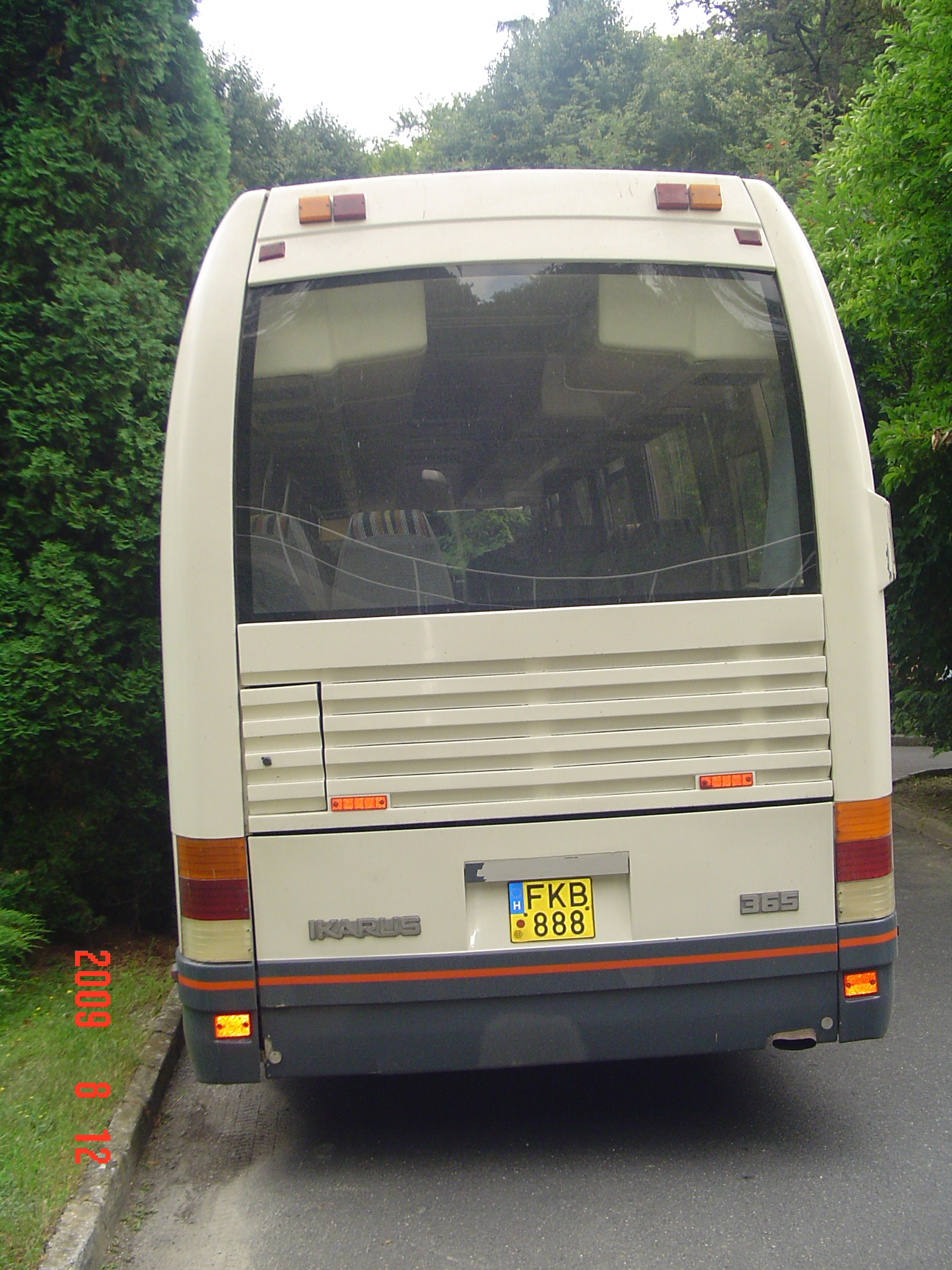 IKARUS 365 back side Date: 2009.08.13.